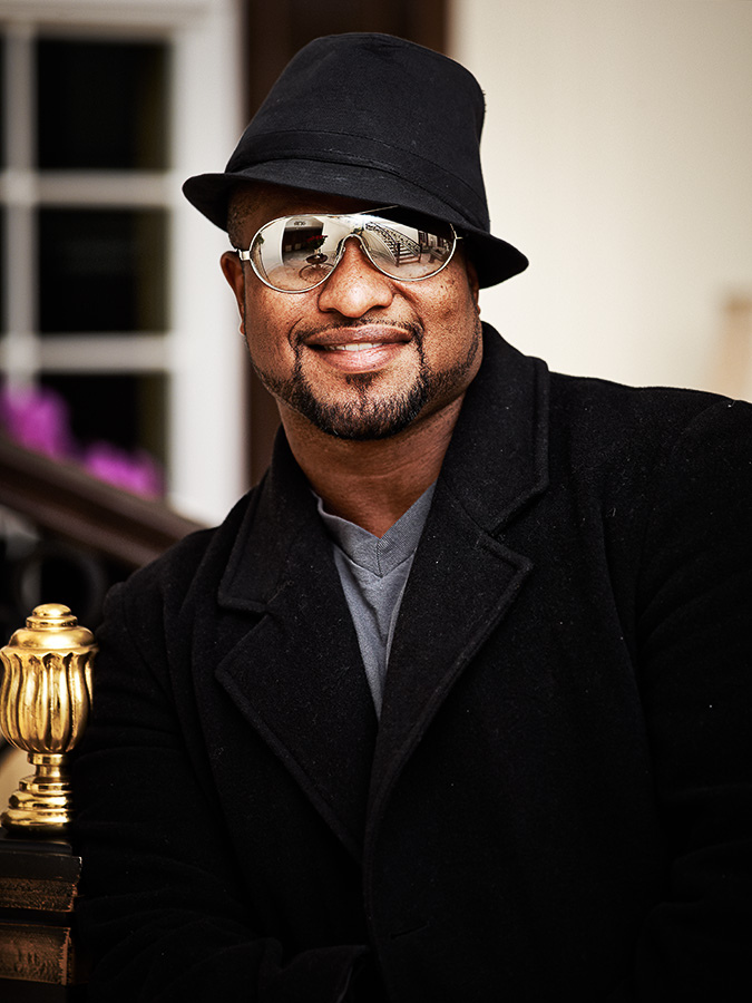 "Relentless" Lamon Tajuan Brewster (born June 5, 1973 in Indianapolis, Indiana) is a retired and former WBO heavyweight champion. He was an American heavyweight professional boxer, who won the silver medal as an amateur at the 1995 Pan American Games in Mar del Plata. As a pro he has won the WBO World Heavyweight Title - picture shot in Agalarov Estate of Moscow - he visited Moscow to suppot James Toney in his 5 Oct 2011 figth with Lebedev